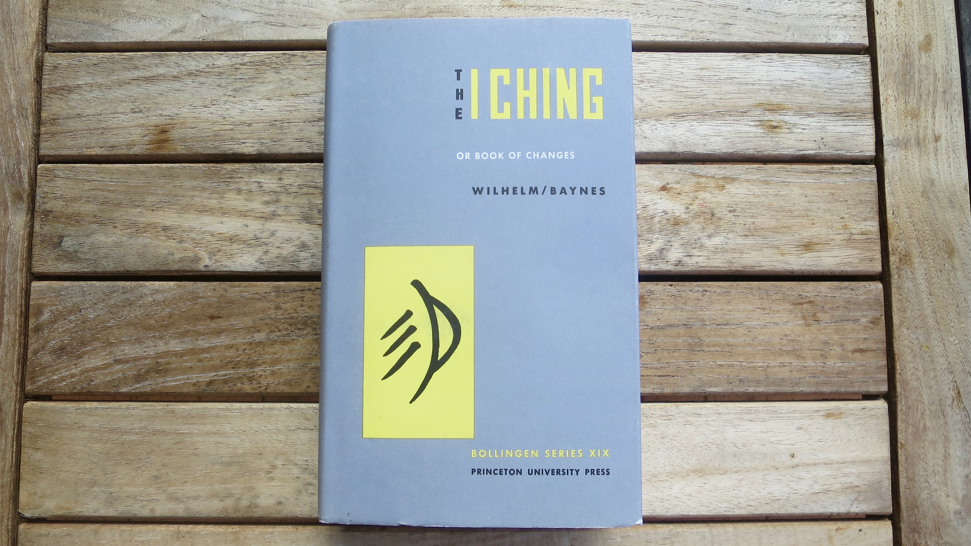 "The I Ching", Wilhelm/Baynes.